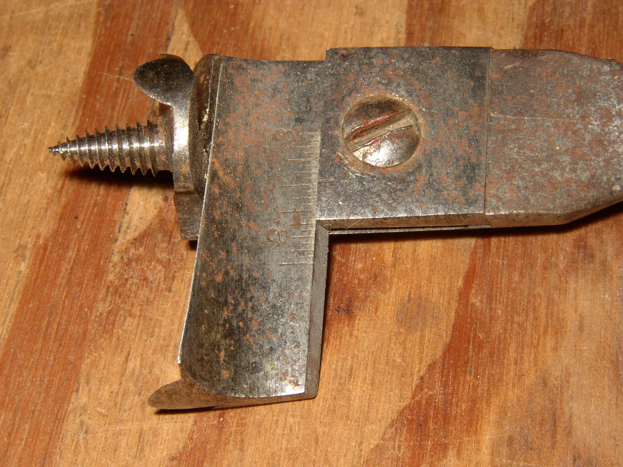 Photo of an adjustable wood bit, meant for use in a brace. I took this photo myself, of my drill bit, and release it under the GFDL.